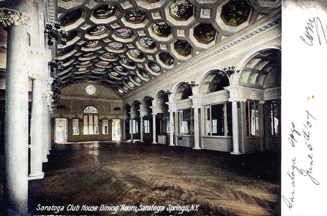 Saratoga Club House Dining Room, see Canfield Casino and Congress Park